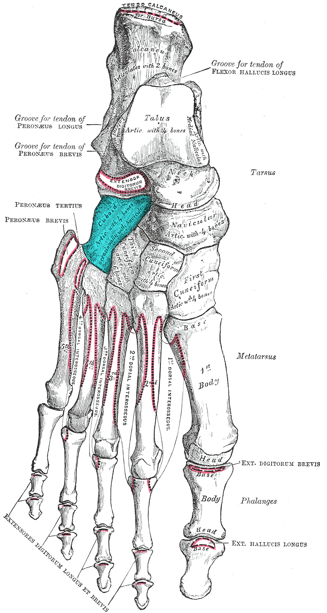 Bones of the right foot, dorsal surface. Cuboid bone shown in blue